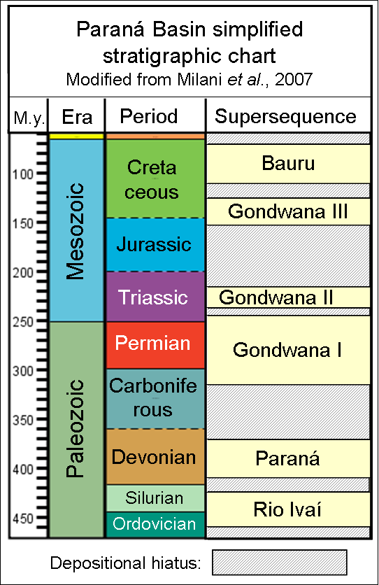 Simplified stratigraphic chart of Paraná Basin, South America (English version)